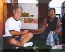 A. J. Advincula receiving Master Shimabuku's bo cover from Shinsho Shimabuku